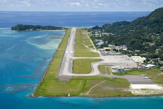 Mahe International Airport, Seychelles